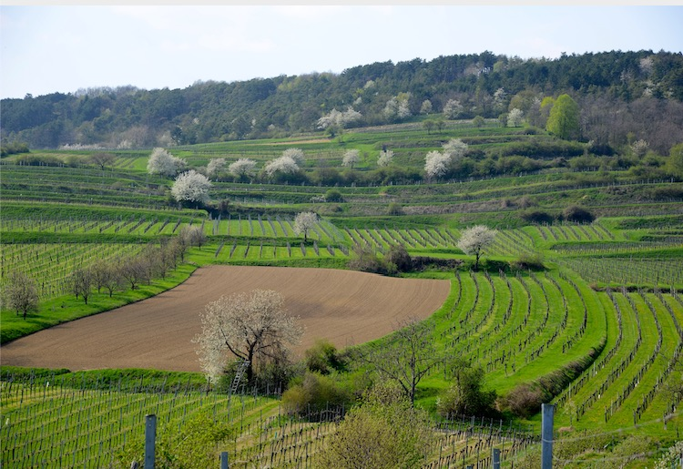 Traisental